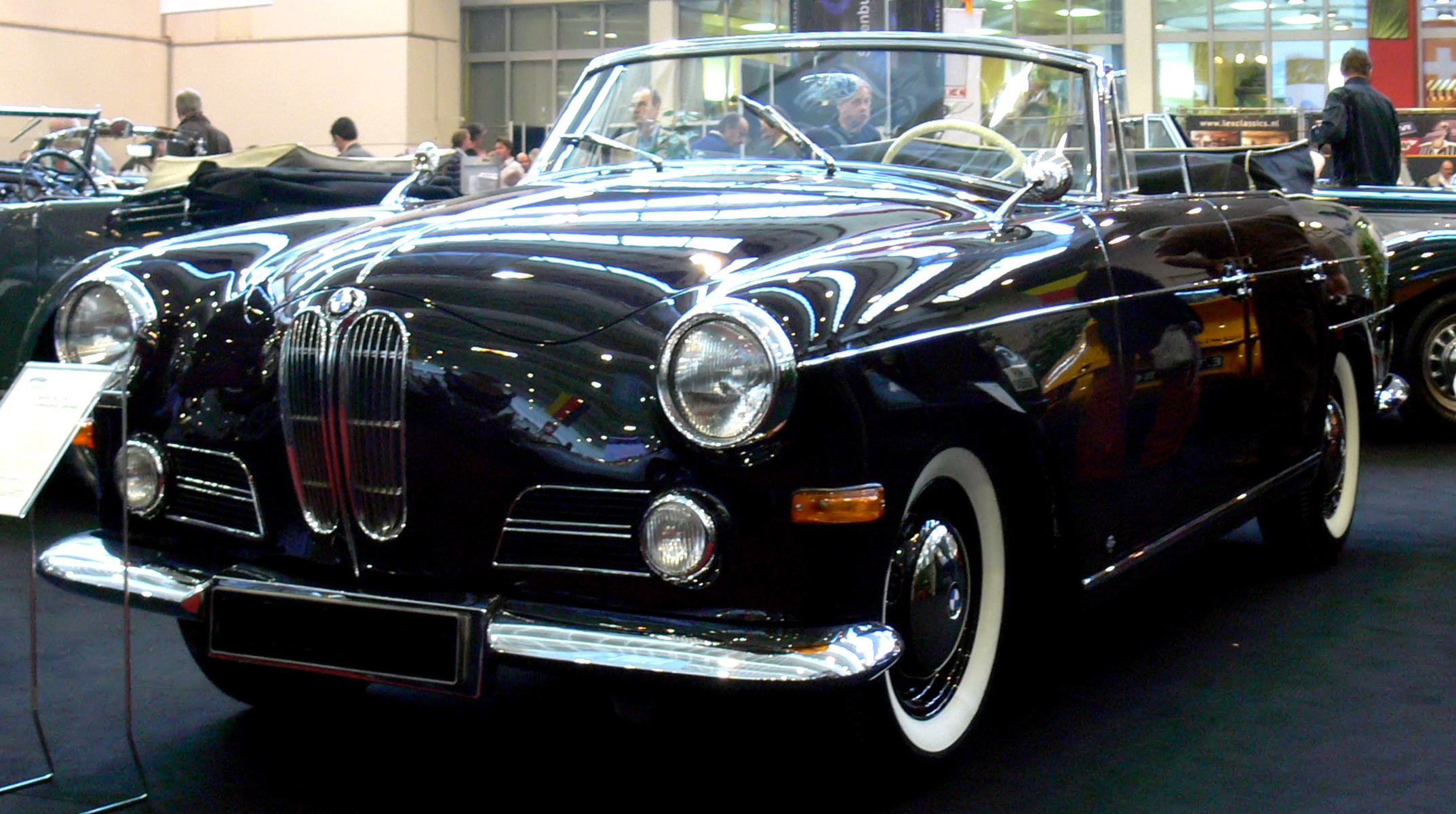 BMW 502 V8 Autenrieth Cabriolet (1960) at the TechnoClassica 2009 in Essen